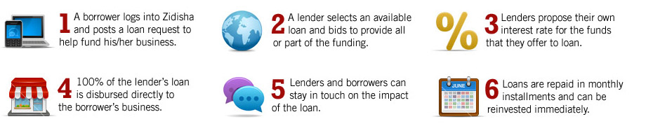 The process for how microloans are transacted through